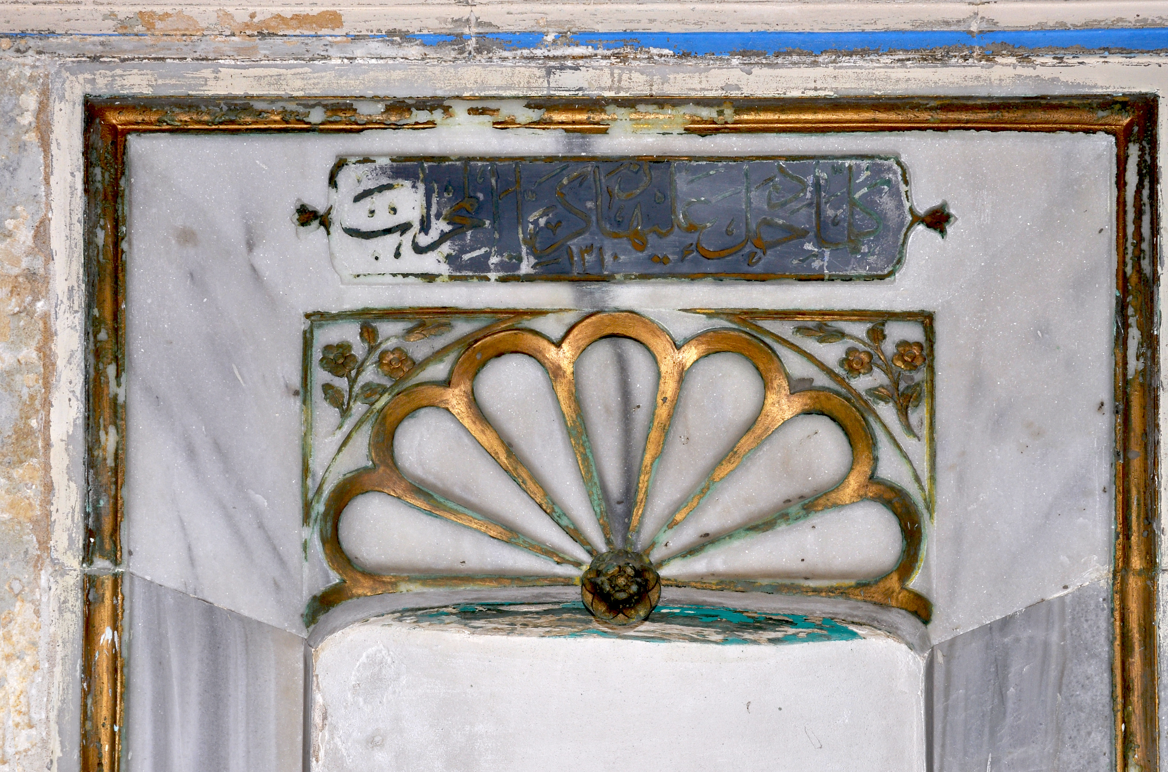 Detail of mihrab in the Küçük Hasan Pasha Mosque in the old harbour of Chania in Crete, Greece.